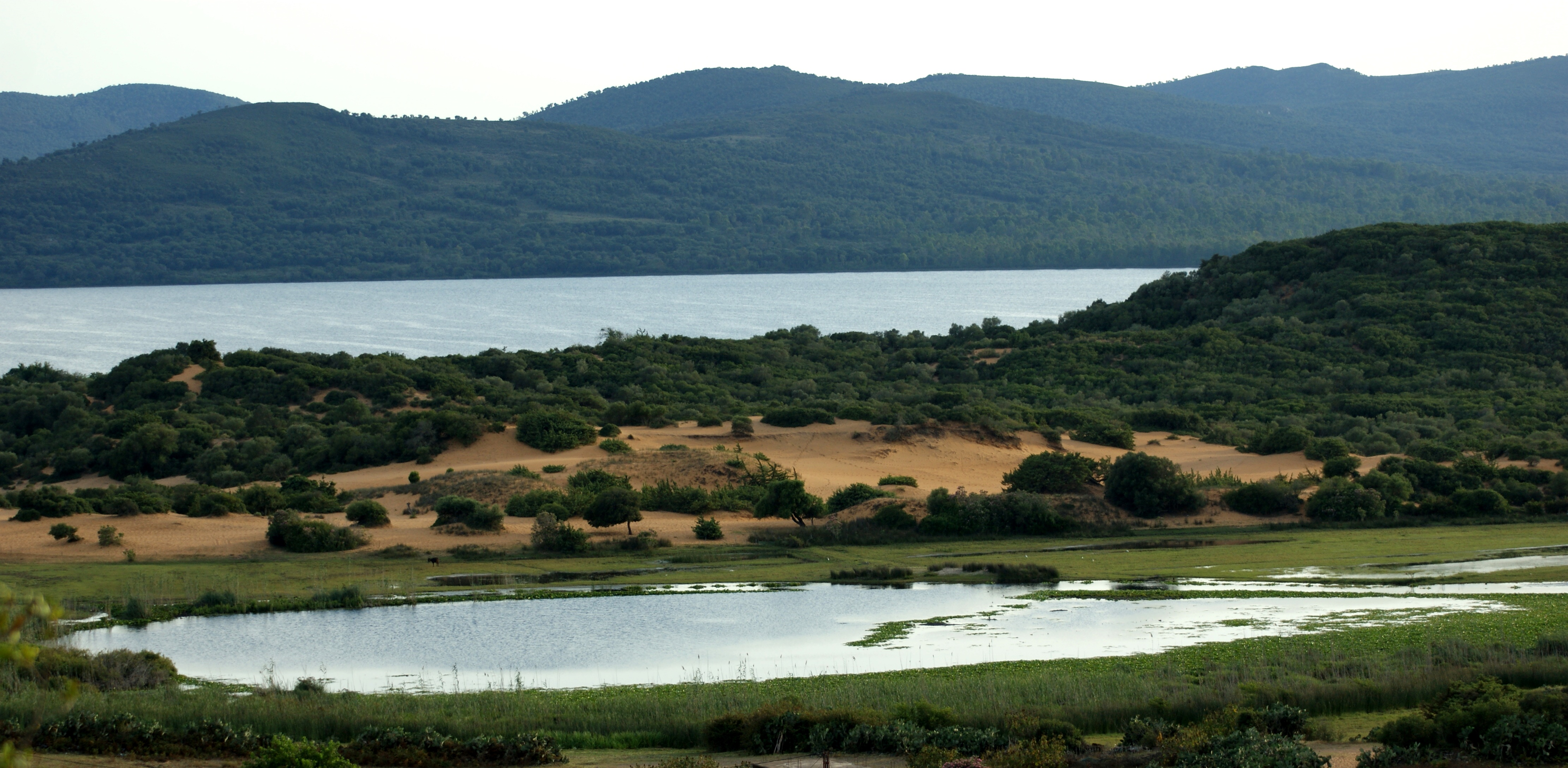 RAMSAR site: The blue lake and the mellah lagoon